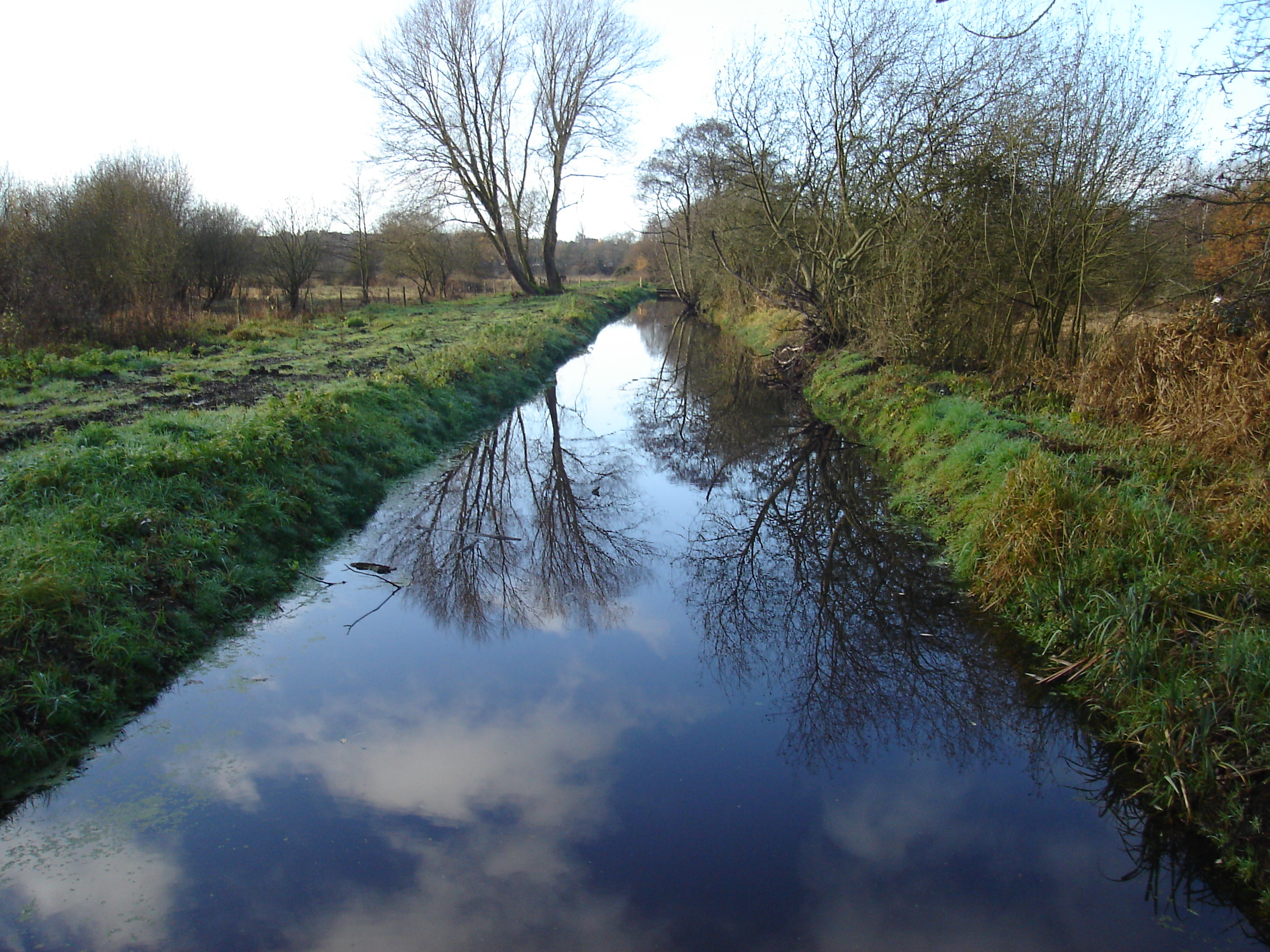 A view of one of the water- filled dykes which bisect Sweet Briar Road SSSI, Norwich